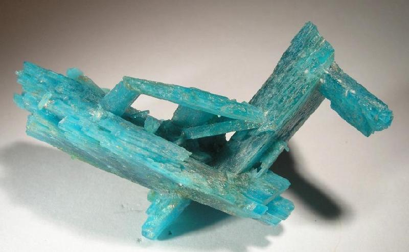 Kröhnkite Locality: Chuquicamata Mine, Chuquicamata District, Calama, El Loa Province, Antofagasta Region, Chile (Locality at ) A very rare and exceptional specimen with elongated, translucent crystals to 4 cm. This is a superior specimen of a quality I have not seen for sale before. Krohnkite is extremely fragile and large crystallized specimens, as opposed to massive specimens, are almost impossible to get. The pics say it all 5.4 x 3.6 x 2.4 cm